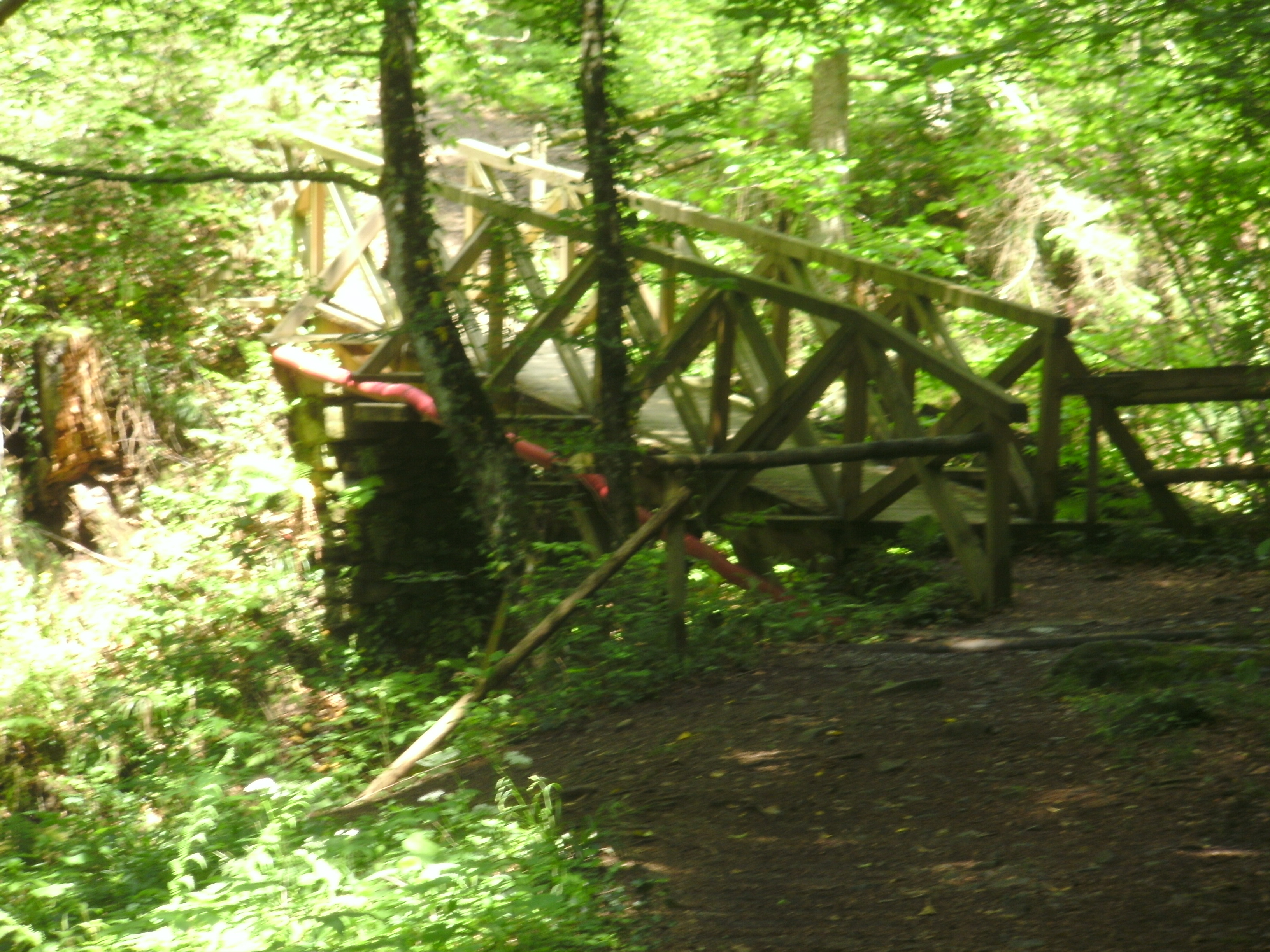 Oplotniški vintgar gorge